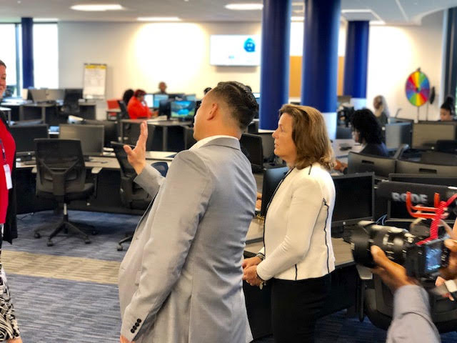 Elena Ford (Chief Customer Experience Officer at Ford Motor Company) during an office walk-through